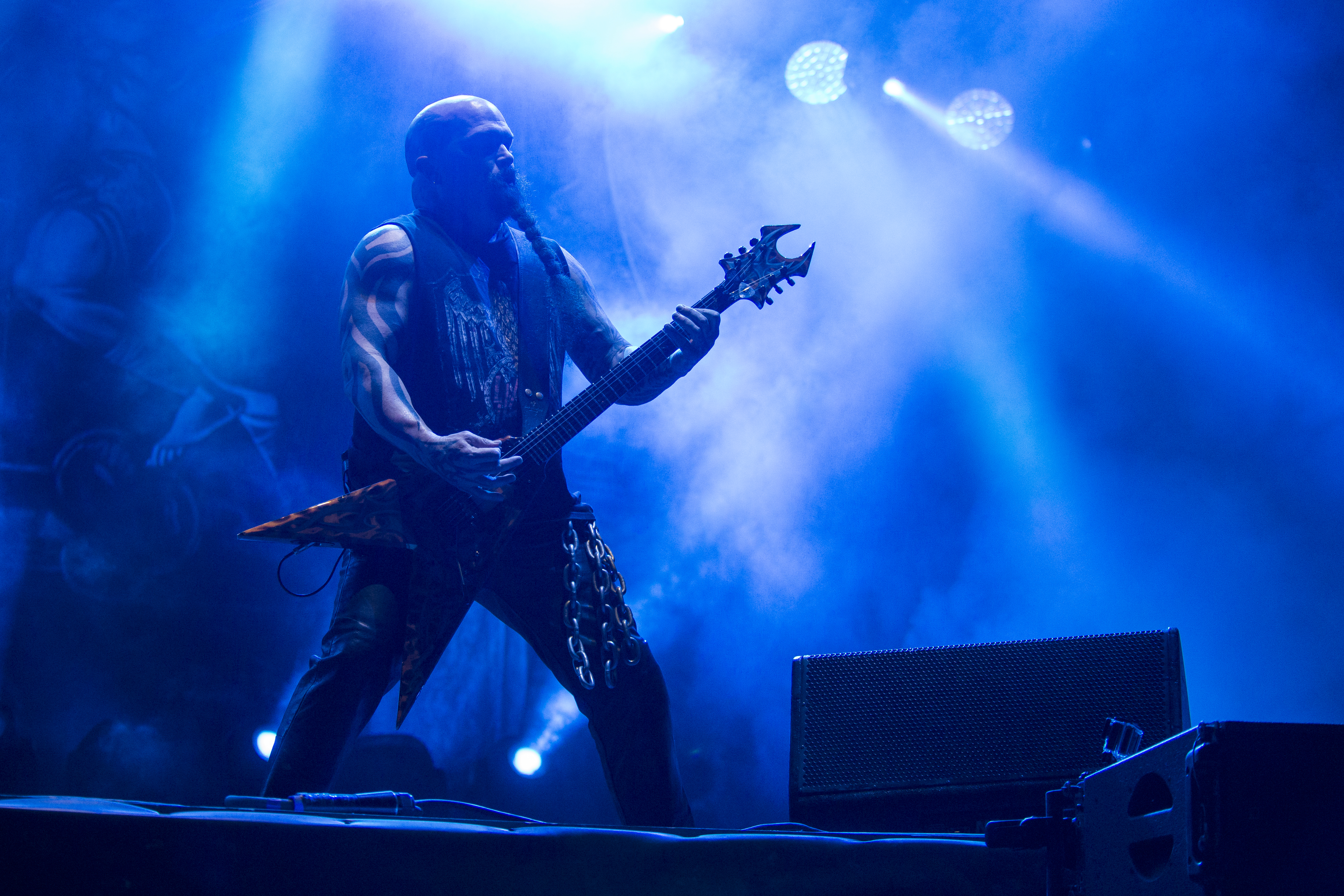 Slayer show, 2017 Hellfest, France.